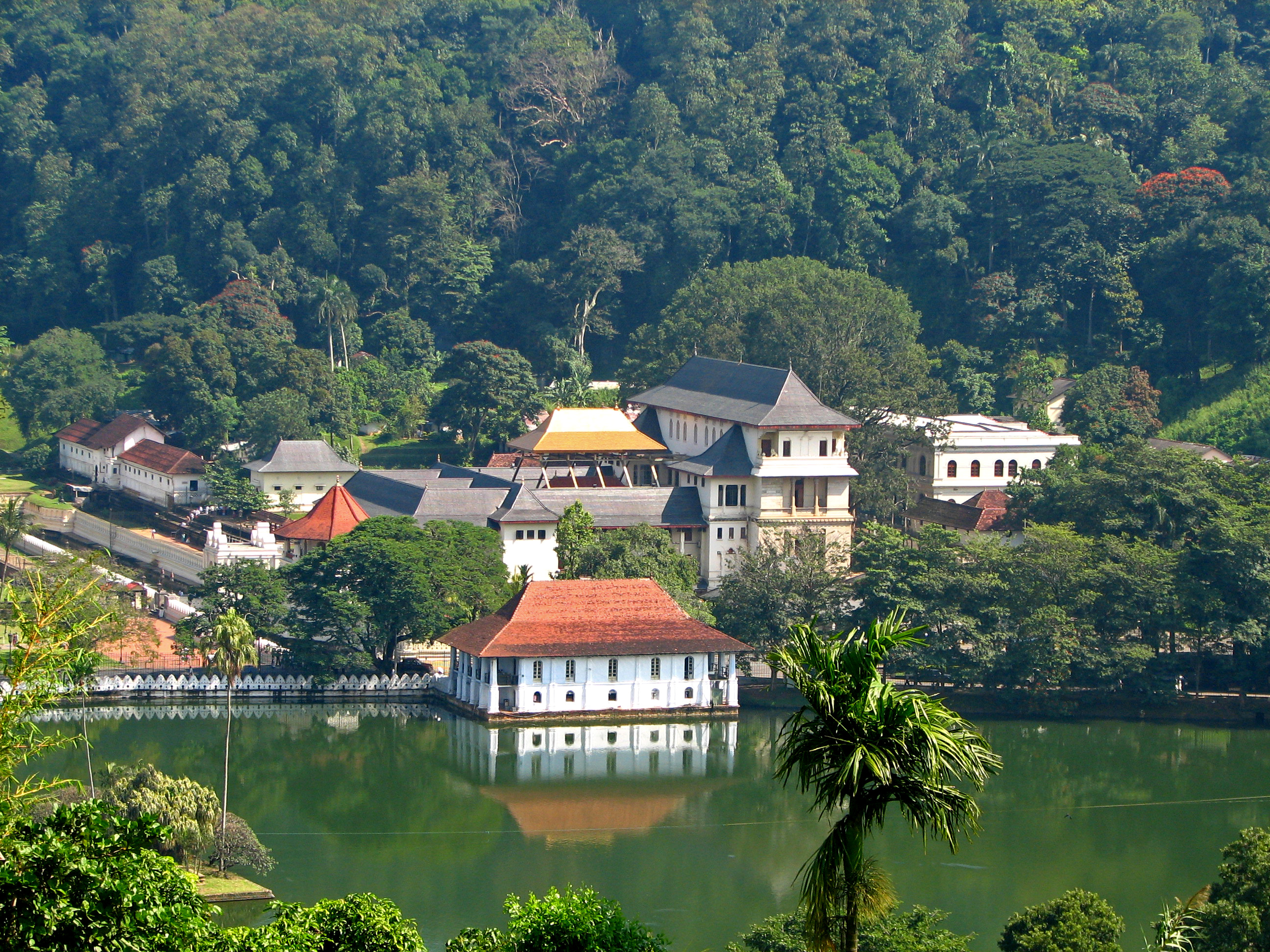 The Temple of the Tooth in Kandy. This temple is one of the most holy sites in Sri Lanka reputed to contain an actual tooth of the Buddha on his 2nd visit to the Island over 2000 years ago.